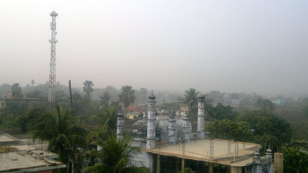 Ariel View of Sonauli Maszid